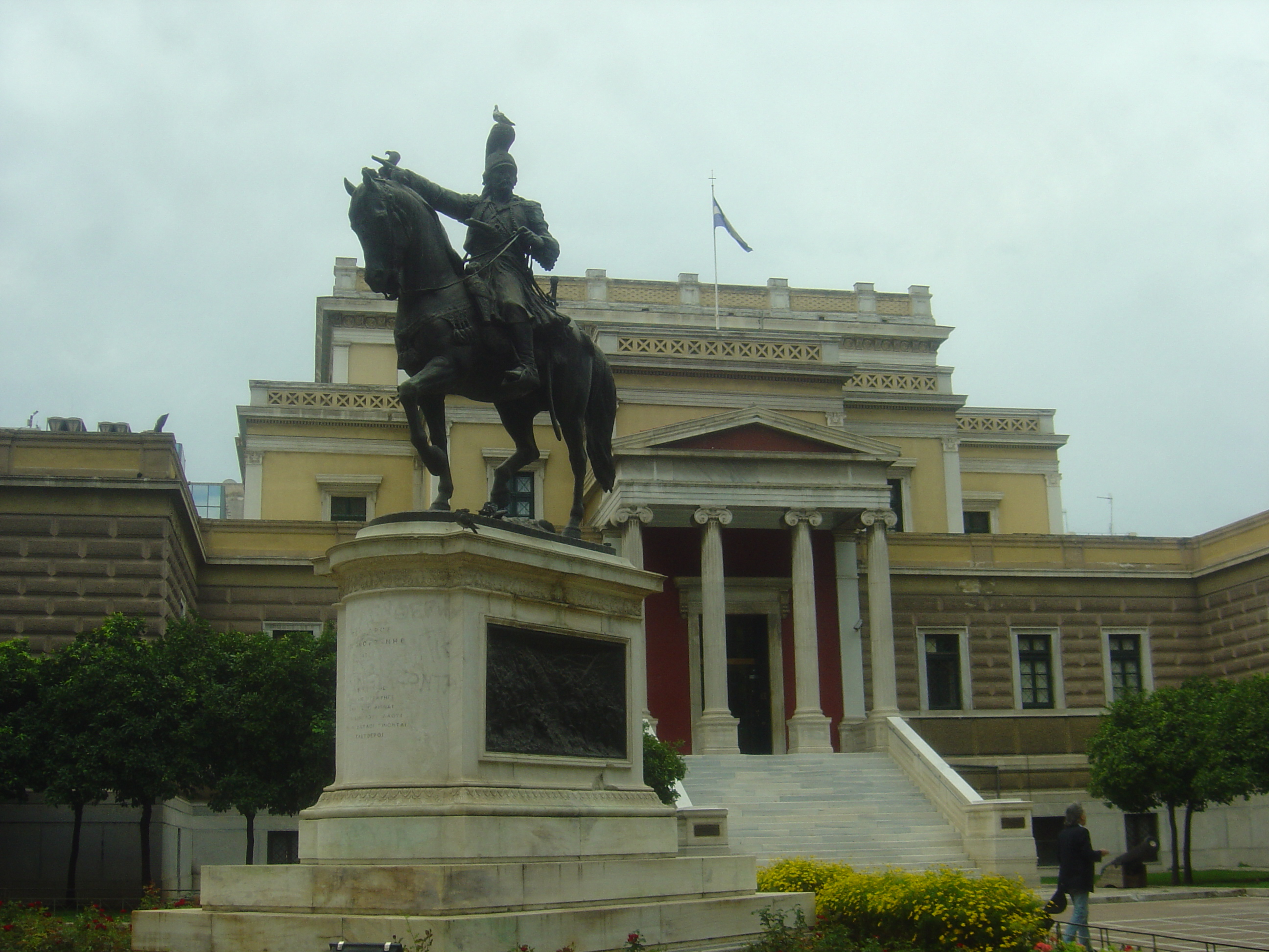 Equestrian Statue of Theodoros Kolokotronis, Athens - Old Parliament